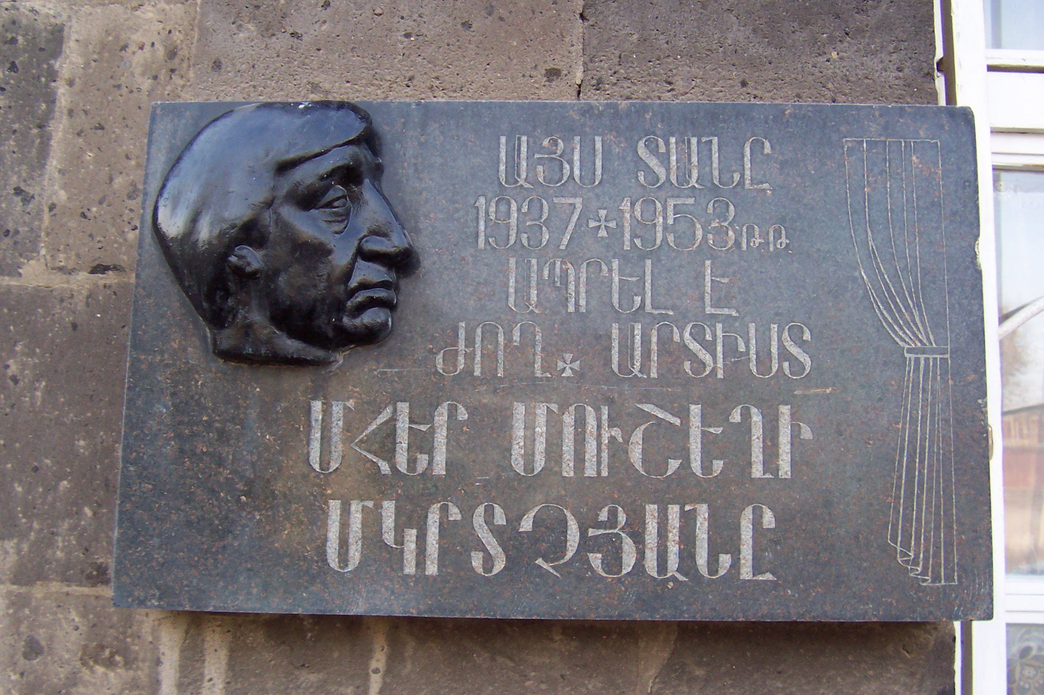 «Մհեր Մկրտչյան» հուշատախտակ, բրոնզ, գրանիտ, 1994, Գյումր